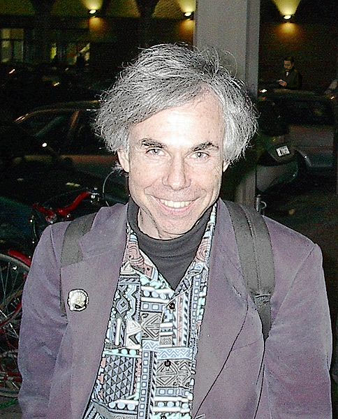 Douglas Hofstadter in Bologna, Italy